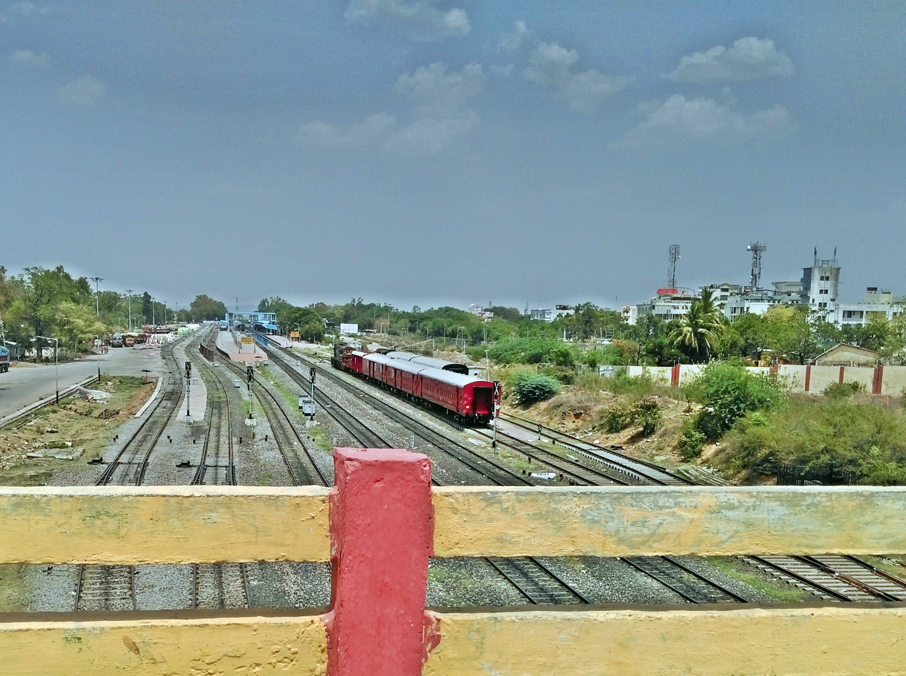 Nizamabad Railway Station as seen from the fly over bridge. Other information no